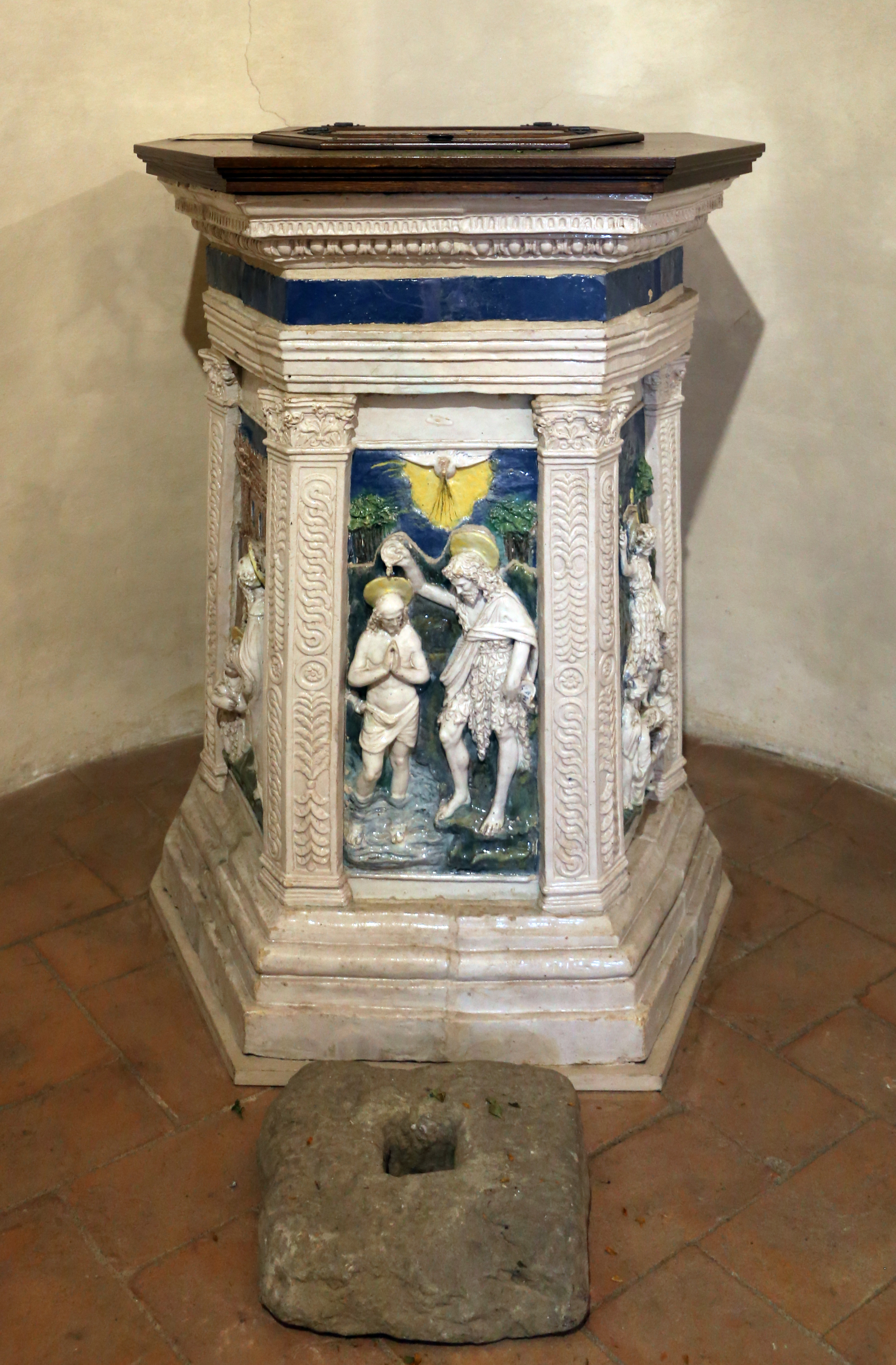 San Leolino (Rignano sull'Arno)